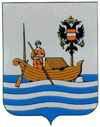 Vilok old coat in Austria-Hungary